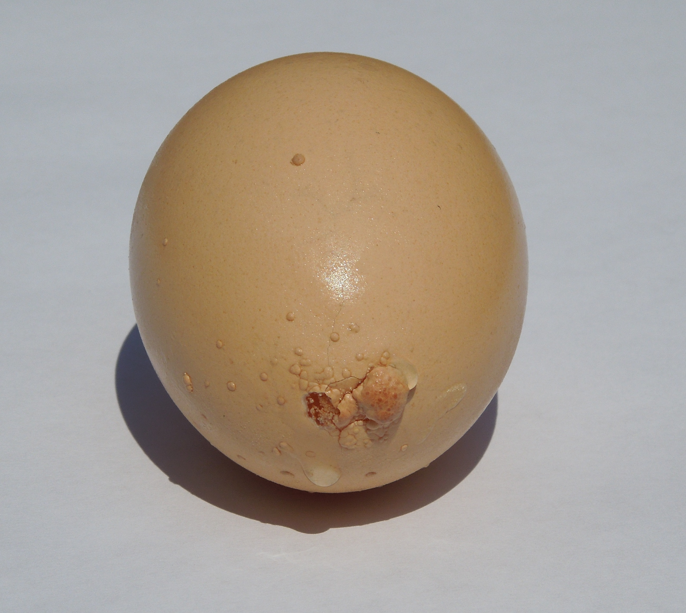 A strange brown egg.